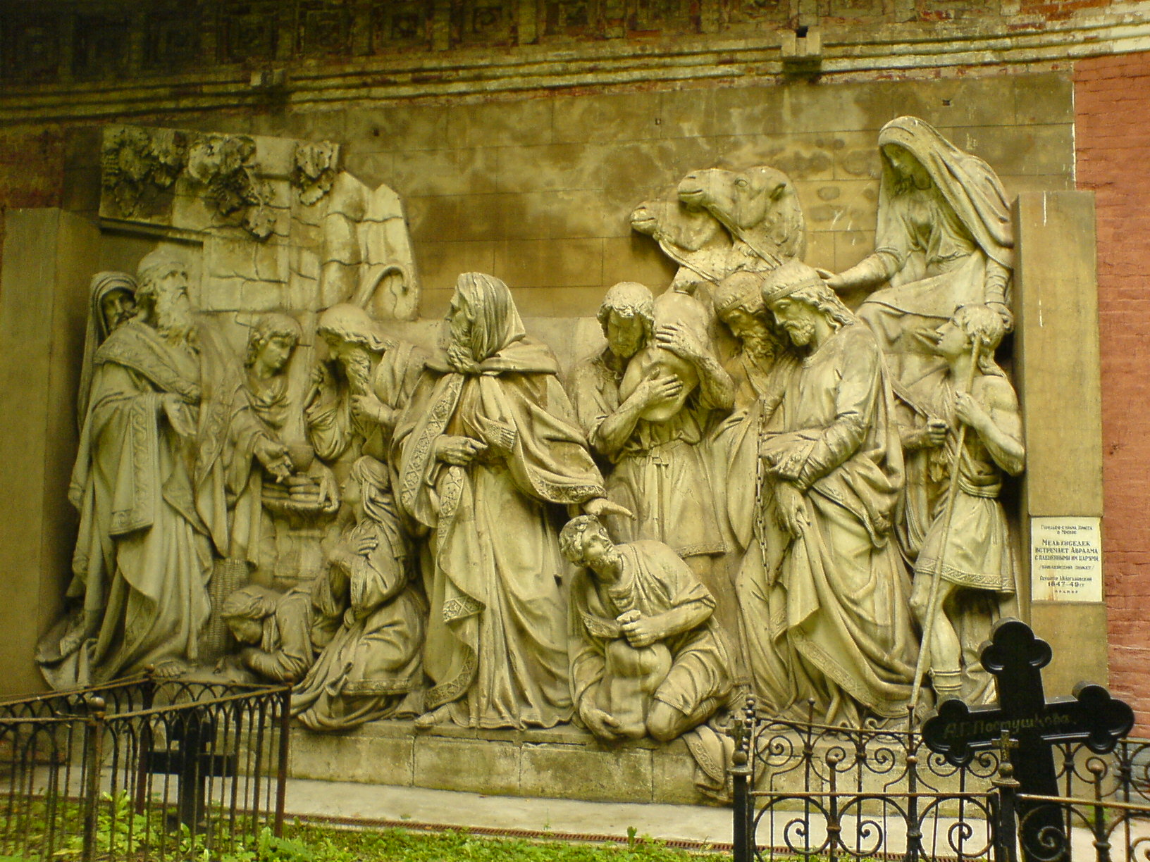 A preserved part of the original Christ the Saviour Cathedral, Donskoy Monastery, Moscow